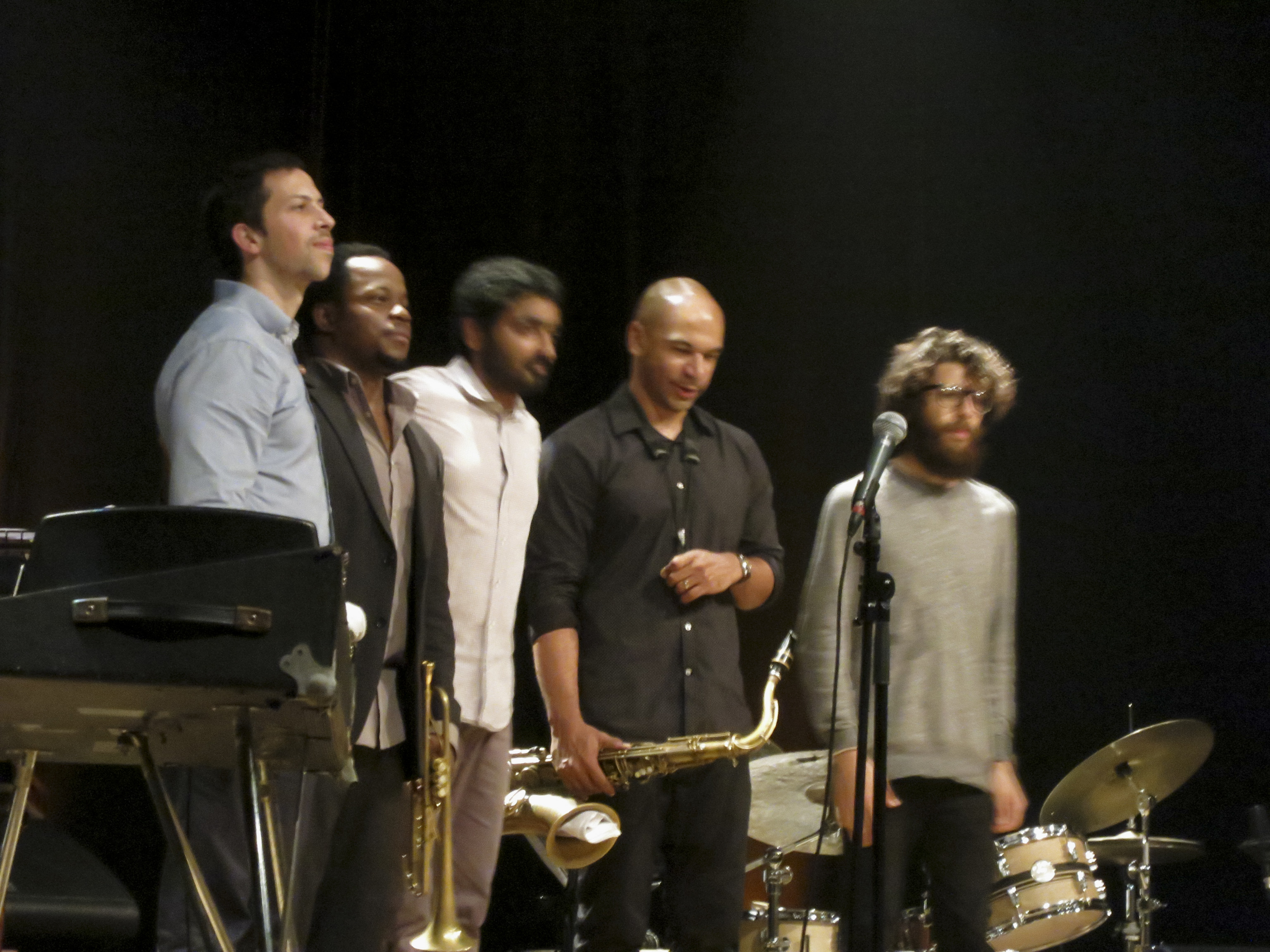 Sam Harris, Ambrose Akinmusire, Harrish Raghavan, Walter Smith III, Tommy Crane; Seixal Jazz, 2014.